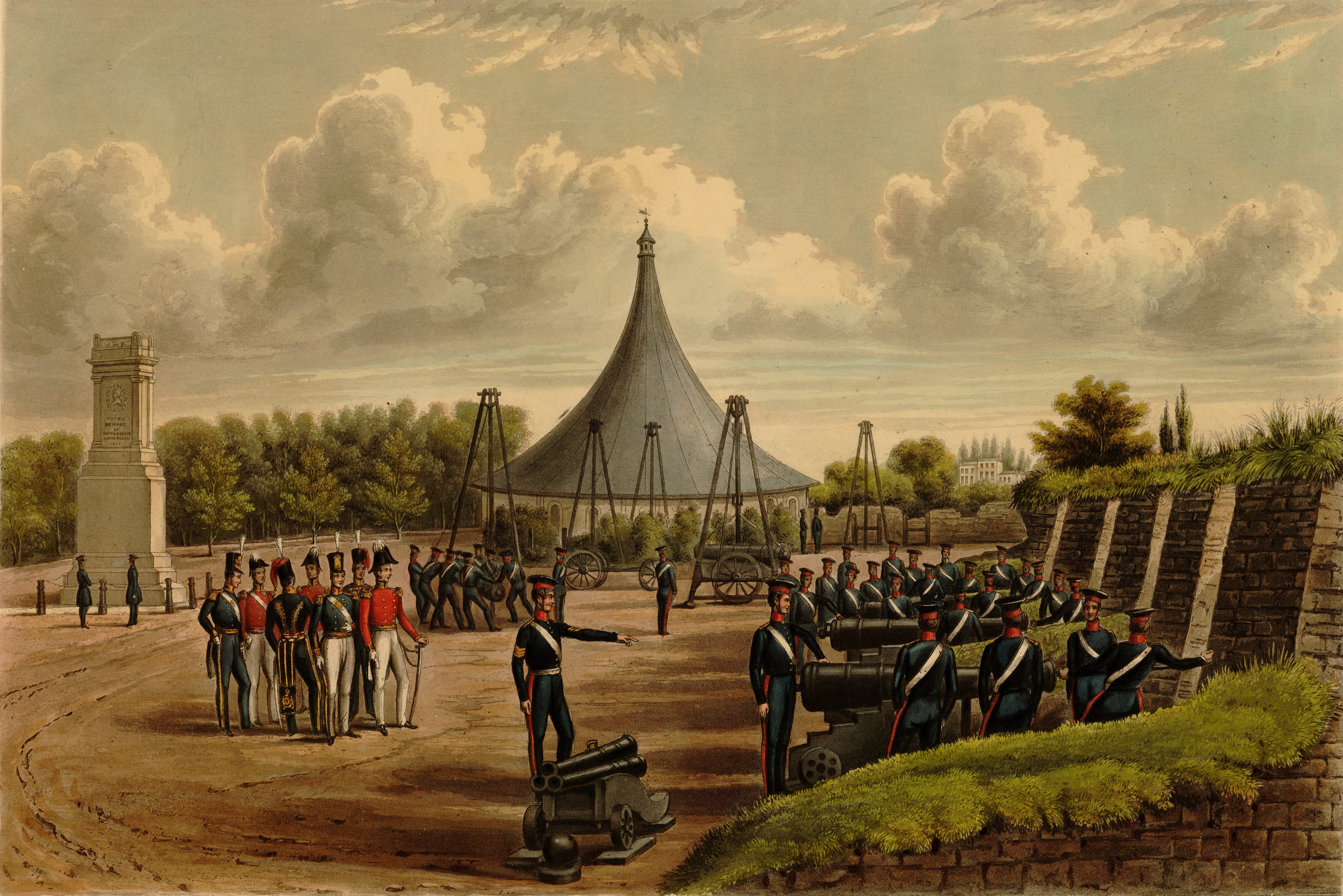 Royal Artillery repository exercises, 1844. And monument to the memory of Major General Sir Alexander Dickson, GCB.